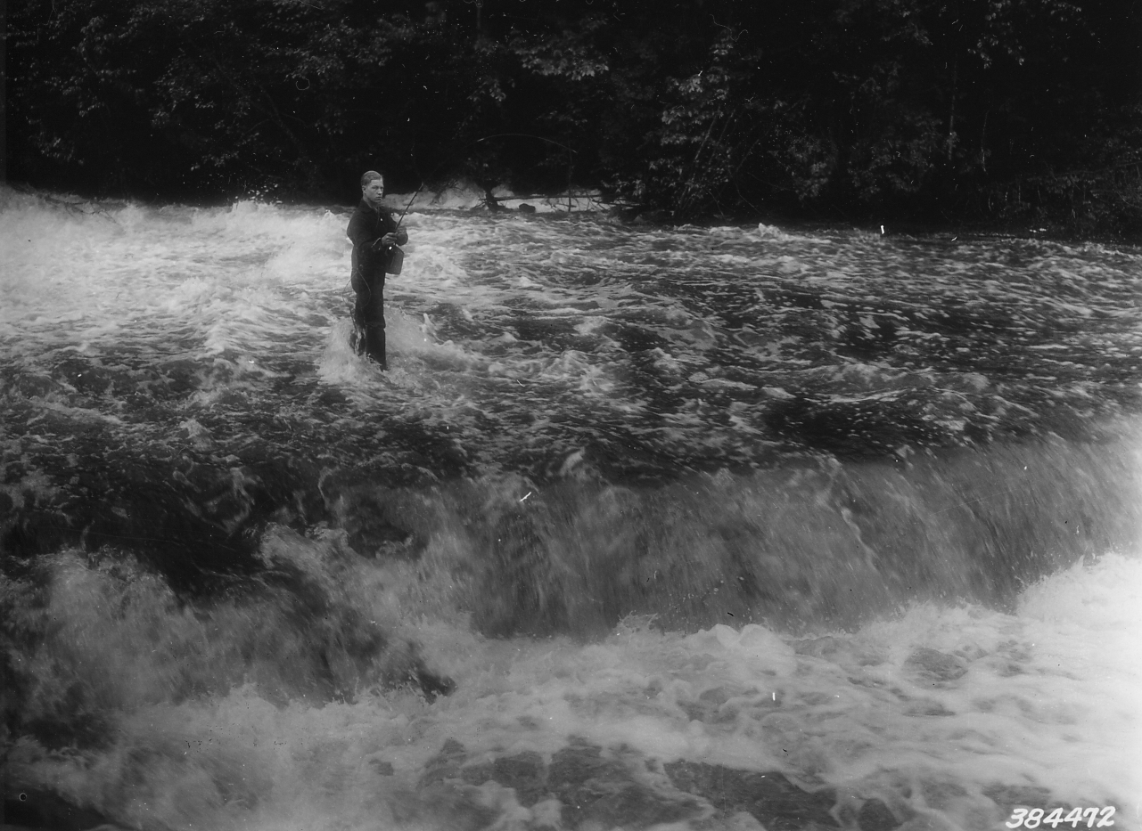 Scope and content: Original caption: George Encahl of Flint, Michigan fishing in rapids below Autrain Falls.